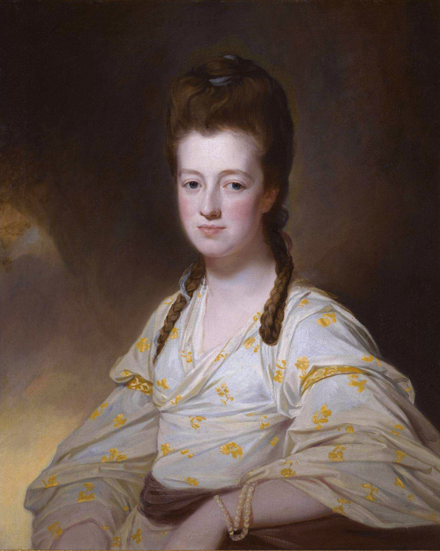 Dorothy Cavendish was daughter of William Cavendish, 4th Duke of Devonshire and wife of William Cavendish-Bentinck, 3rd Duke of Portland (1738-1809)